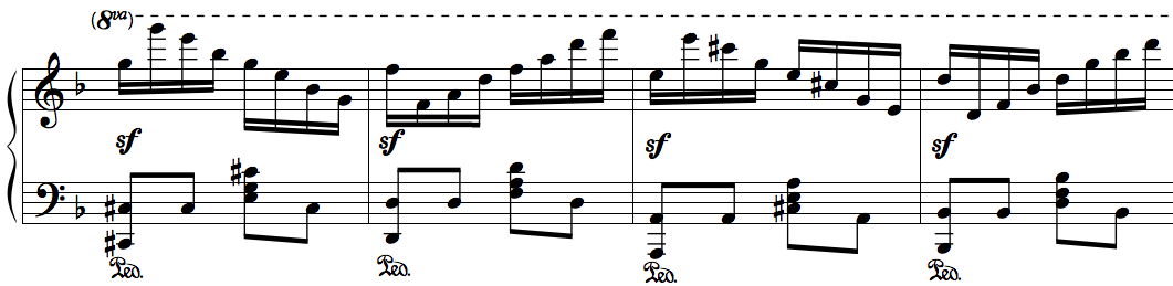 Ending of Le chemin de fer, composed by Charles-Valentin Alkan